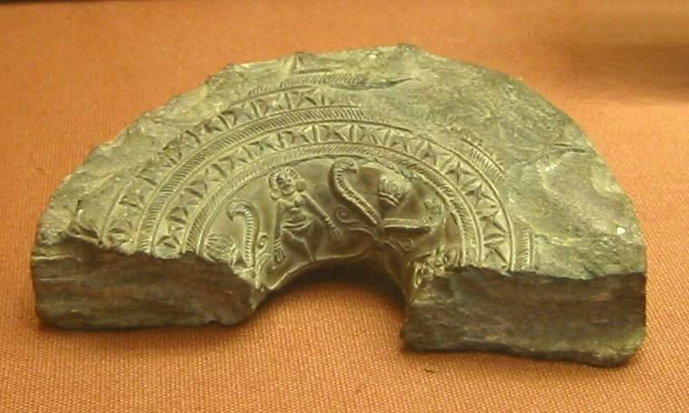 Mauryan ringstone, with standing goddess. Northwest Pakistan. 3rd century BCE. British Museum. Personal photograph 2005.